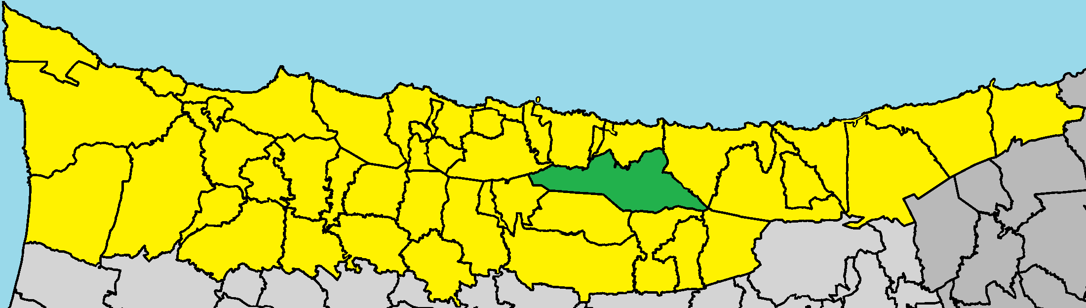 Belapais in Kyrenia District (de jure).